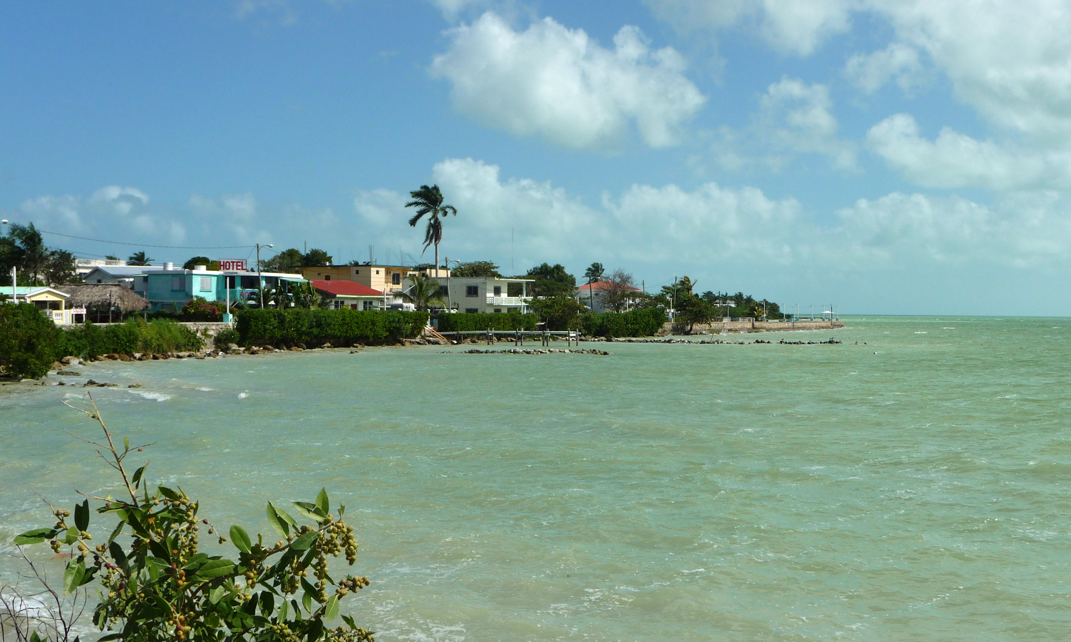 Corozal sea bank (Corozal District, Belize).